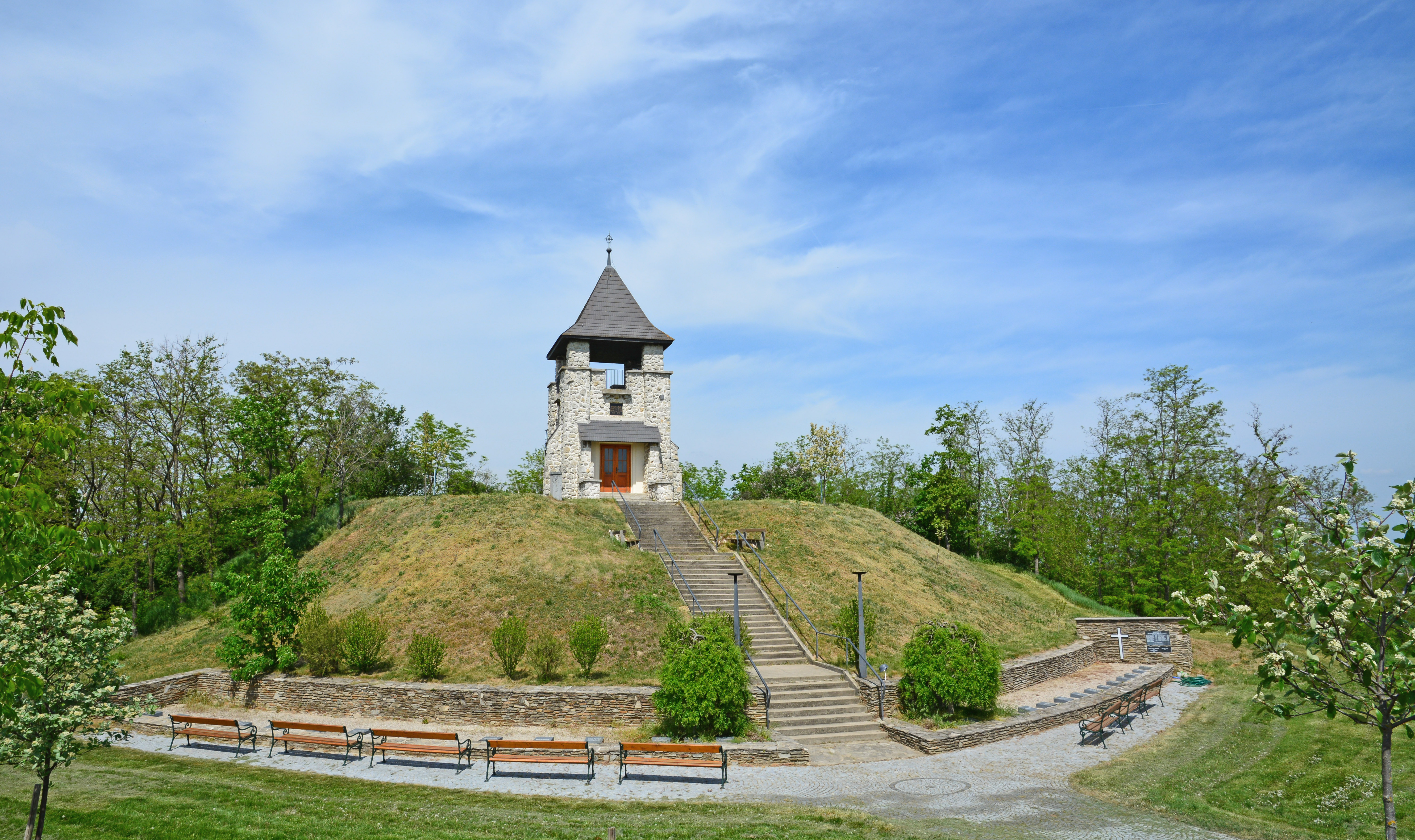 War memorial at Altlichtenwarth, Lower Austria, Austria